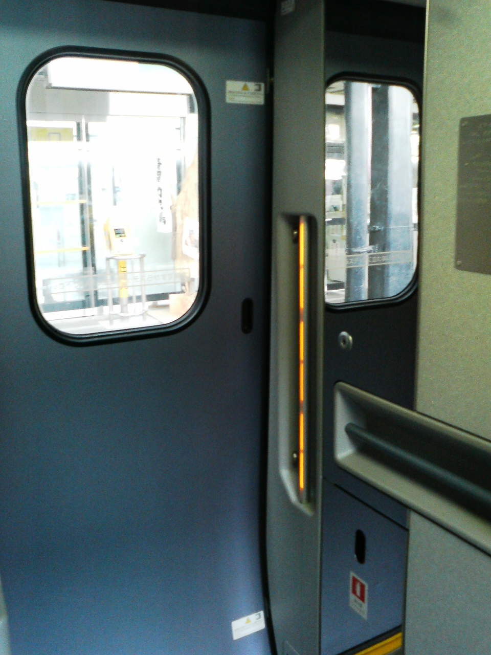 The doorway of E3-2000 Series Shinkansen.